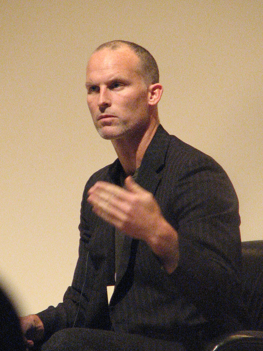 Matthew Barney talked with Nancy Spector (contemporary art curator at the Guggenheim) about his own work and its affinities with the work of Joseph Beuys.